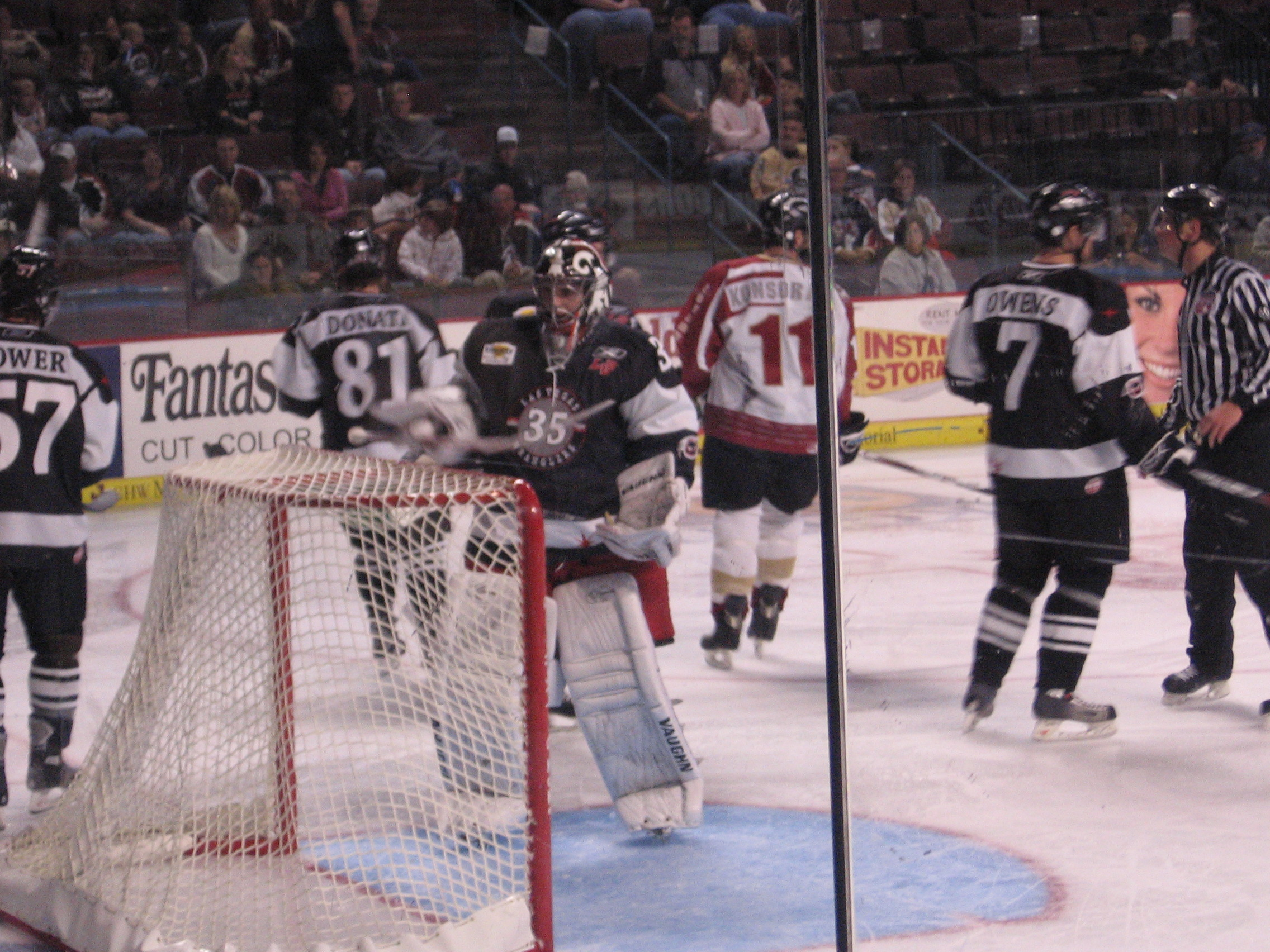 Daniel Manzato, Swiss ice hockey goaltender of the Las Vegas Wranglers